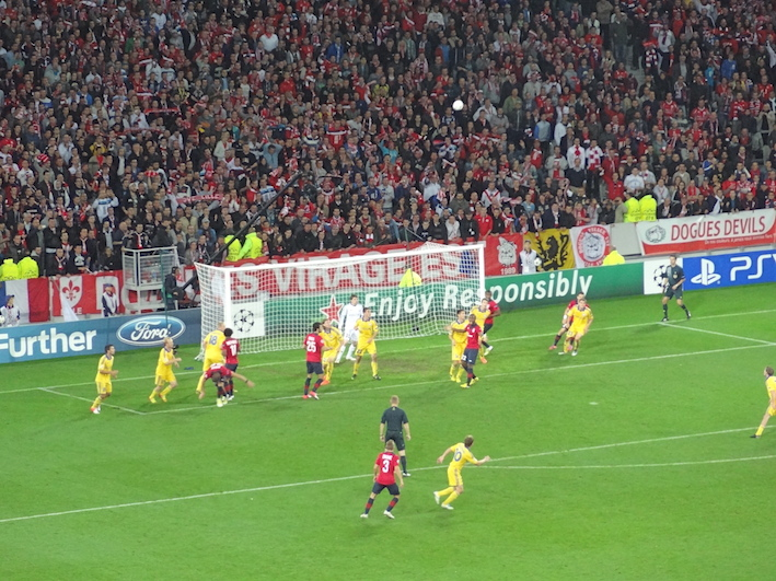 LOSC Lille BATE Borisov